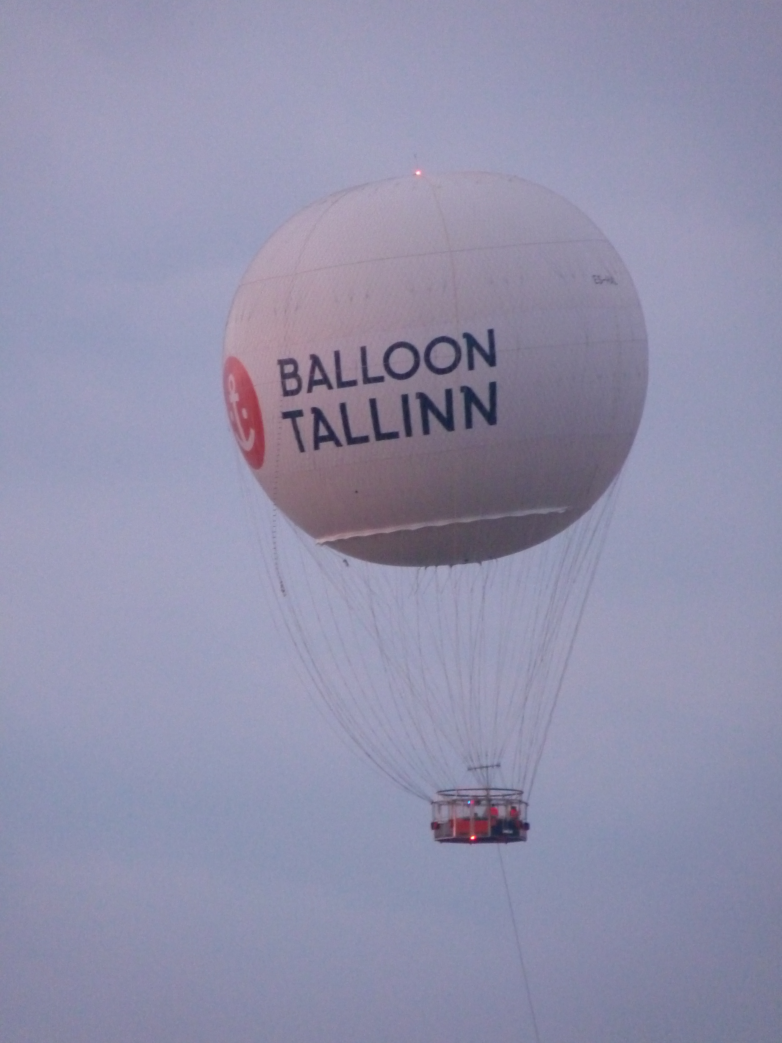 HiFlyer amusement ride helium balloon tethered at Tallinn bay seashore, Estonia.